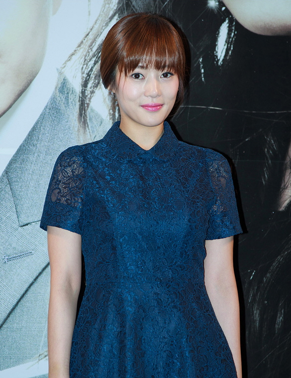 Yoon Ah-jeong in February 2012